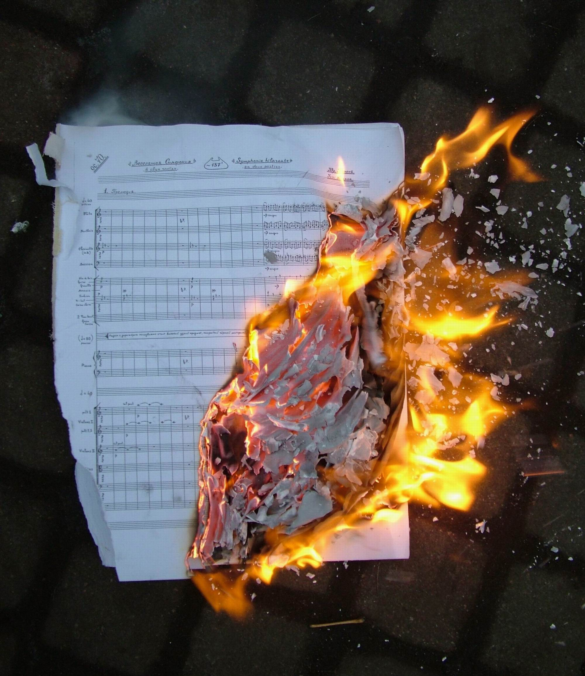 Yuri Khanon, oc.70 «Symphonie Hilarante» (“The Laughing Symphony”) in two parts, 137' min (1999) Premiere: first and last performance of the symphony November 29, 2017 The beginning of the concert: the first 22 sheets of the score, torn from the binding. NB: reversible way of composition: «Manuscripts don't burn?..»